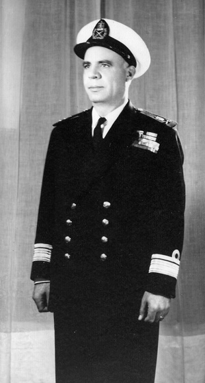 Marshal Mohammad Fouad Abu Zikry, Full Portrait.